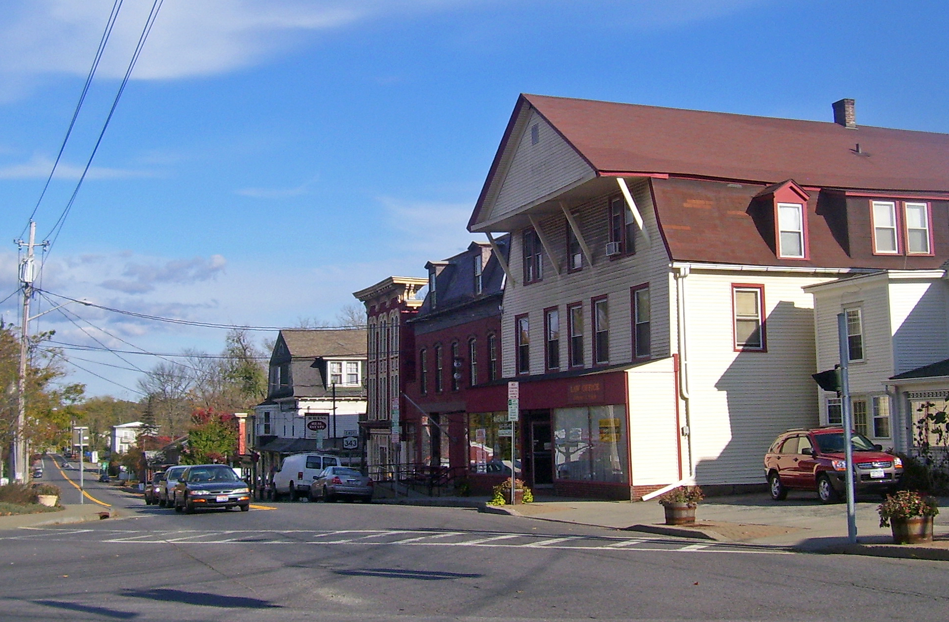 View east along East Main Street, Amenia, NY, USA, from junction of NY 22, US 44 and NY 343 at the center of town